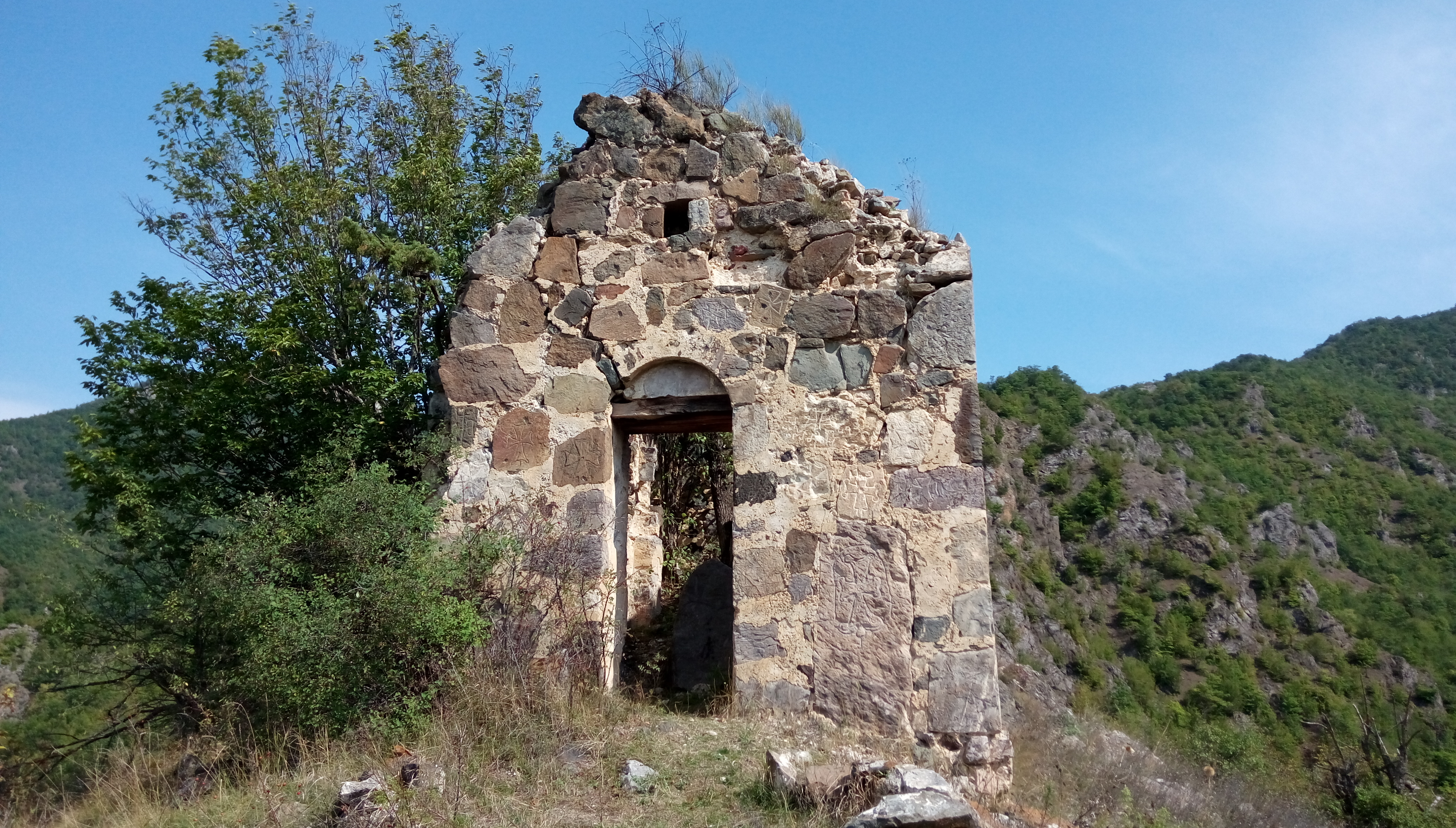 The ruins of medieval church in Artsakh, near Yeghegnut village.